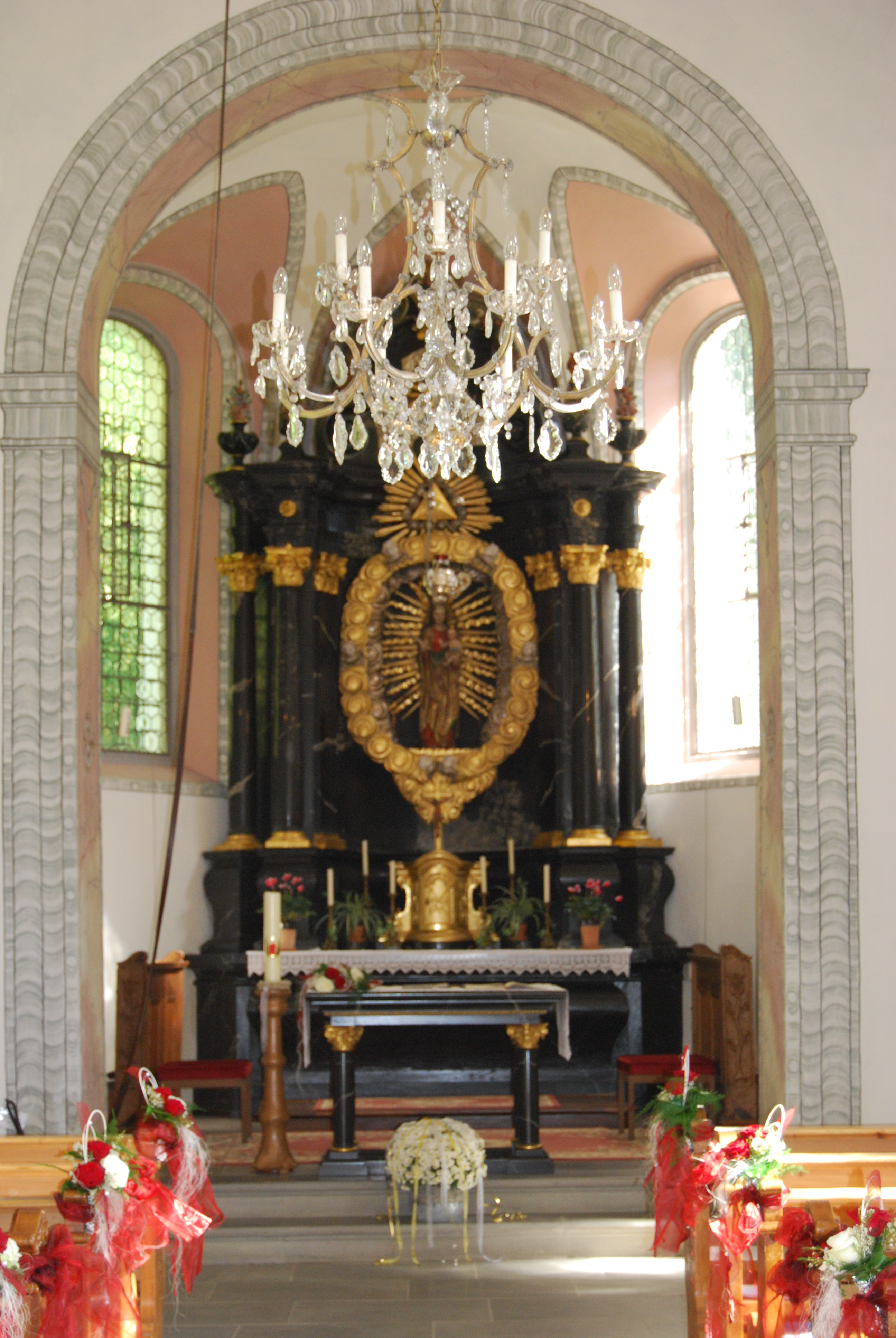 Altar of the Jonental pilgrimage chapel, canton of Aargau, SwitzerlandEsperanto: Altaro de la pilgrima kapelo Jonental, Kantono Argovio, Svislando